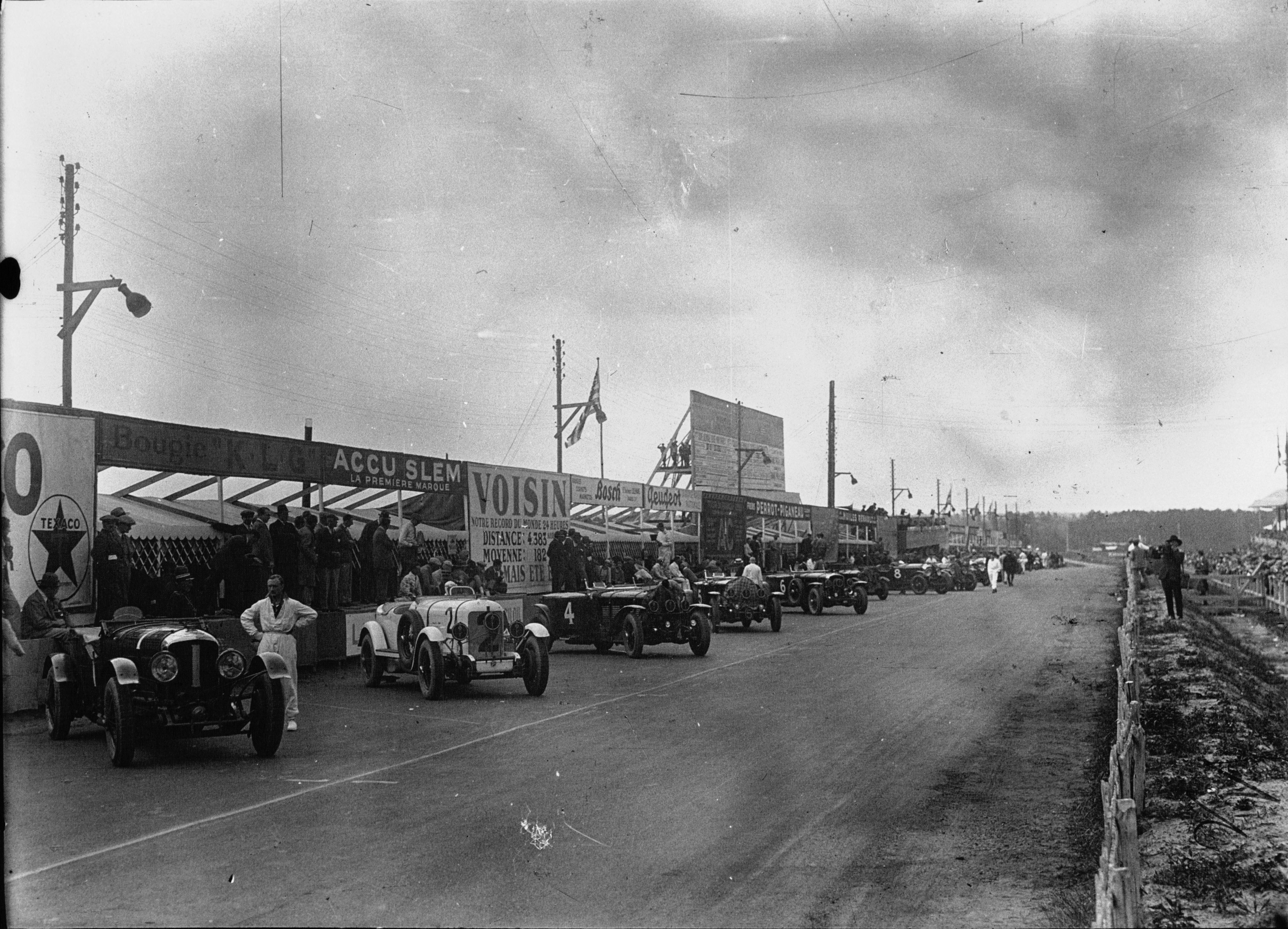 Grid at the 1929 24 Hours of Le Mans.